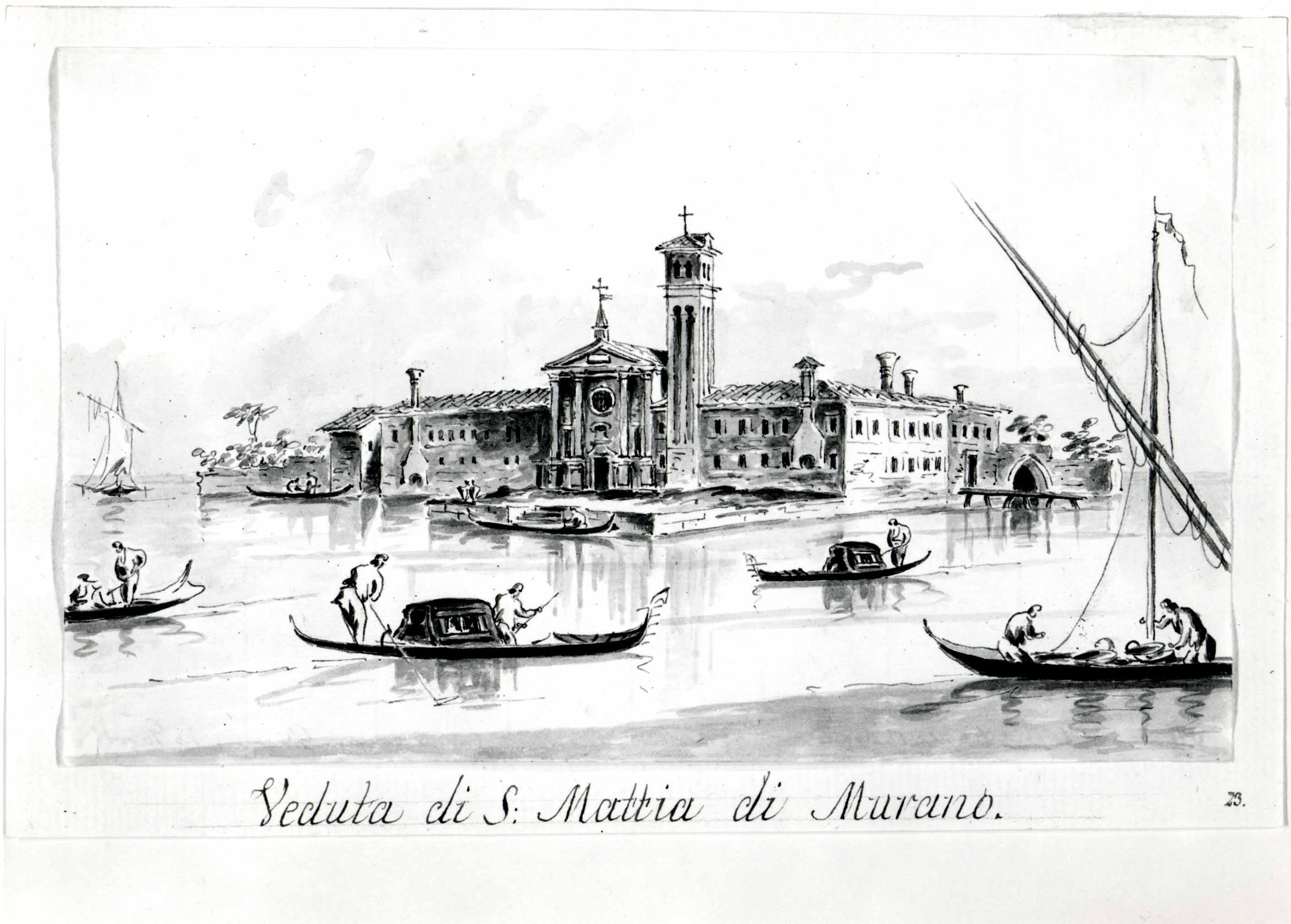 The Church and Convent ( Camaldolese monastery) of San Mattia di Murano